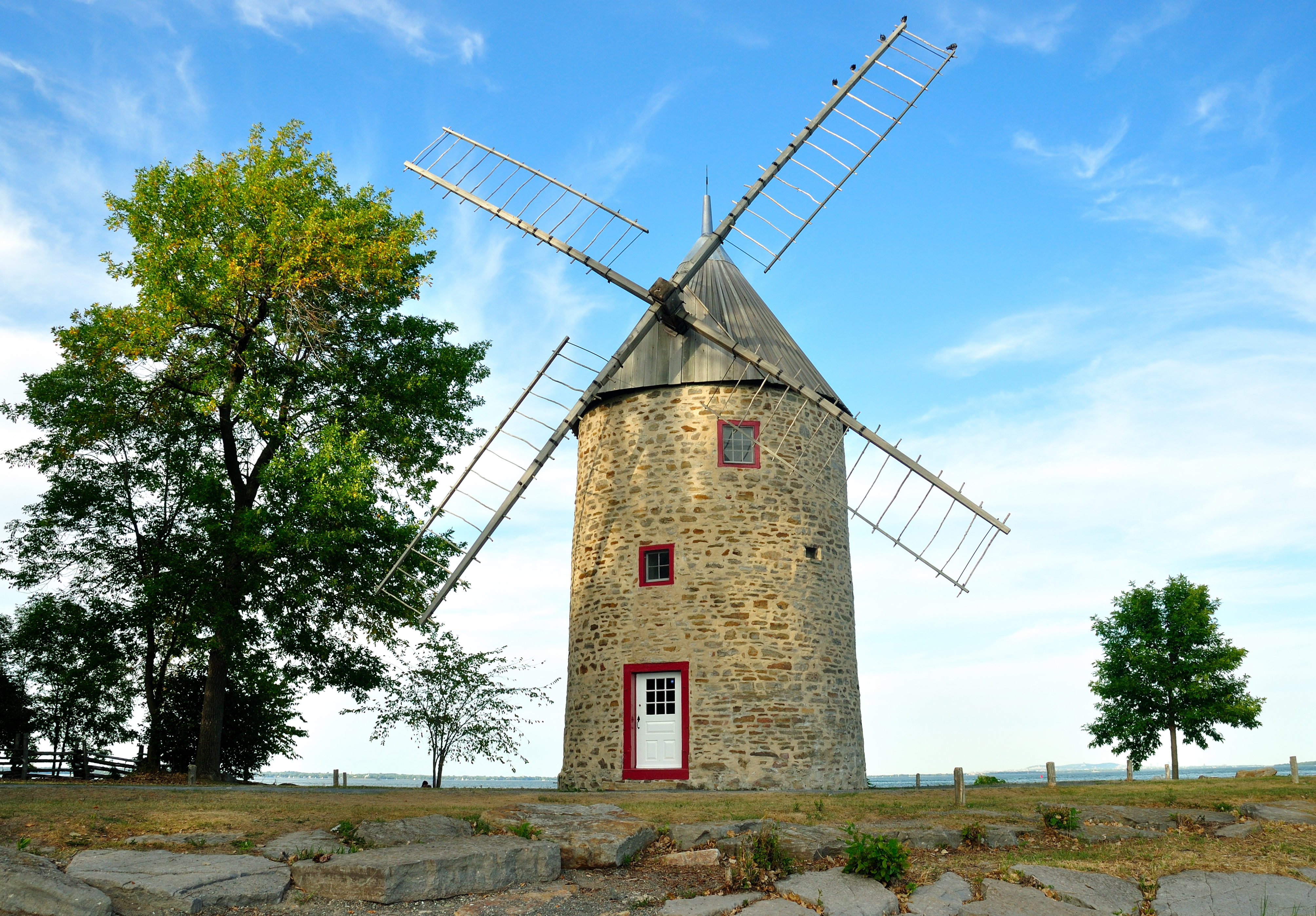 2500, boulevard Don-Quichotte, Notre-Dame-de-l'Ile-Perrot, Canada